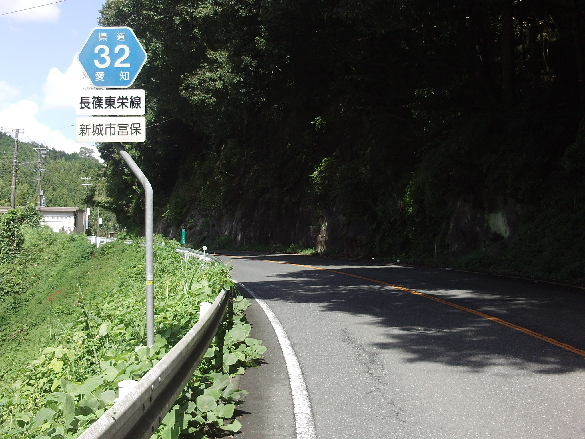 Aichi prefectural road No.32 in Tomiyasu, Shinshiro, Aichi.